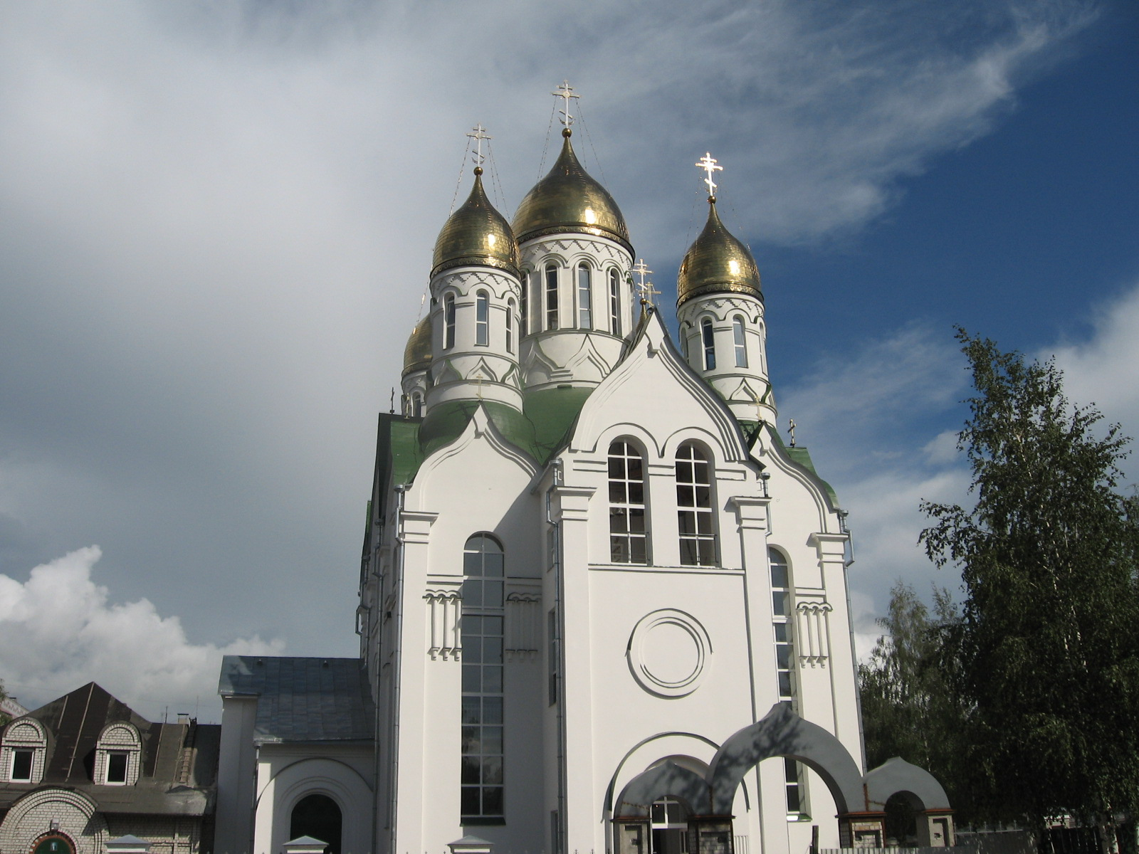 St. Alexander Nevsky Church in Ryazan